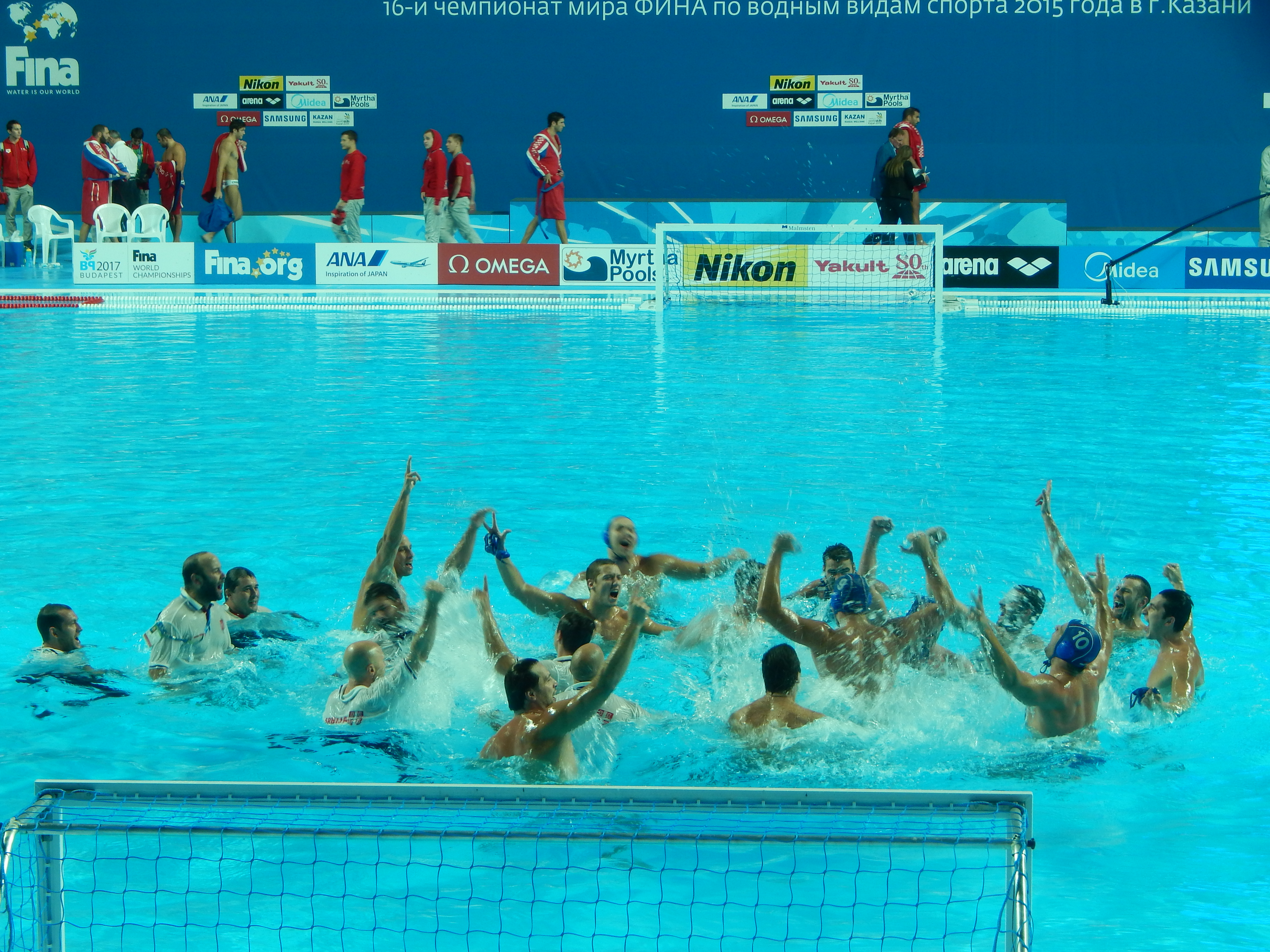 The gold medal match between Team Serbia and Team Croatia and the victory ceremony. All photos have been taken from the photographers sector. I was simply usual visitor but my ticket was to non-existent seats, therefore I was moved to that sector. All good photos I upload to WikiCommons for free use.